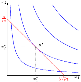 A figure with indifference curves and budget lines to display the consumer's optimum